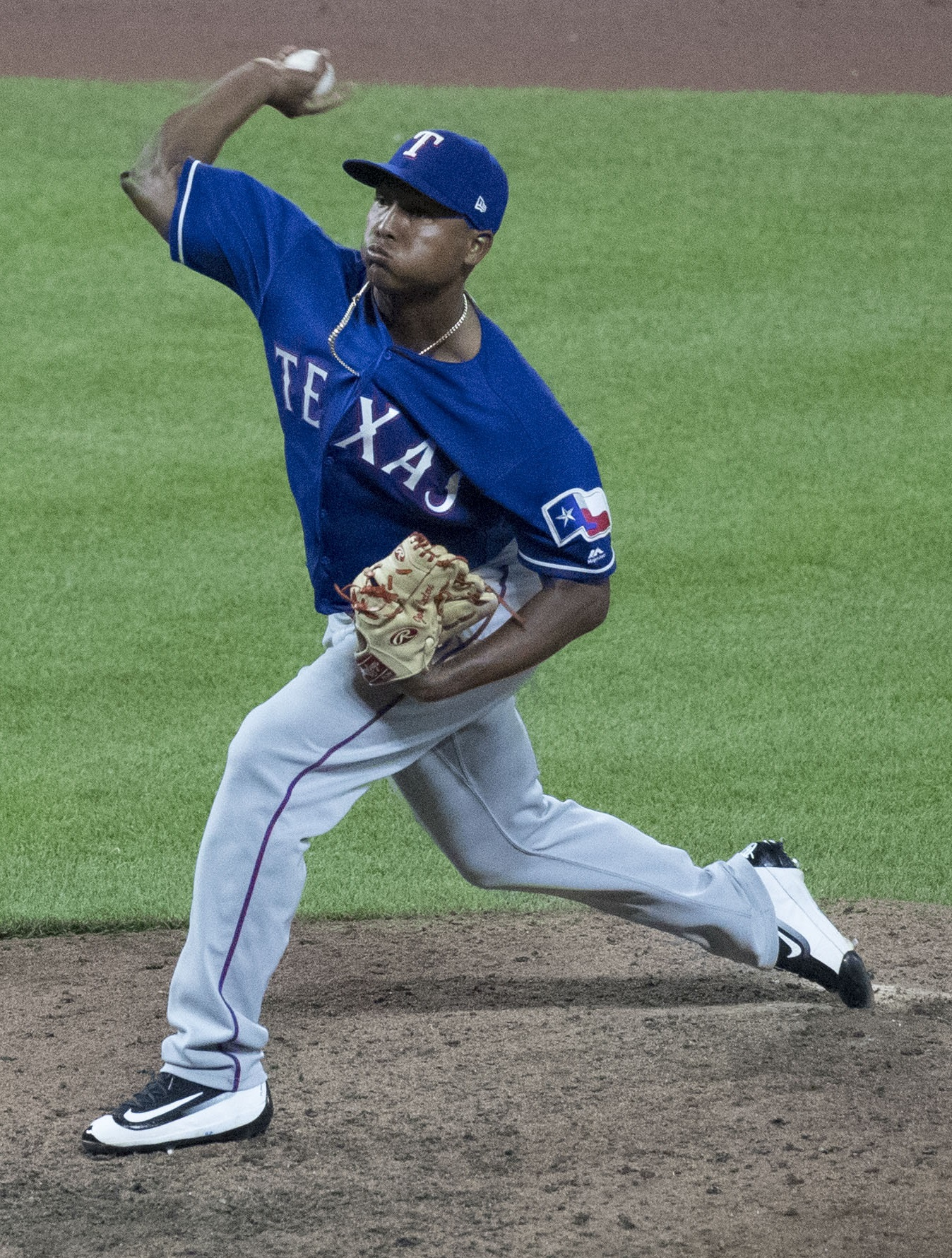 Rangers at Orioles 7/20/17